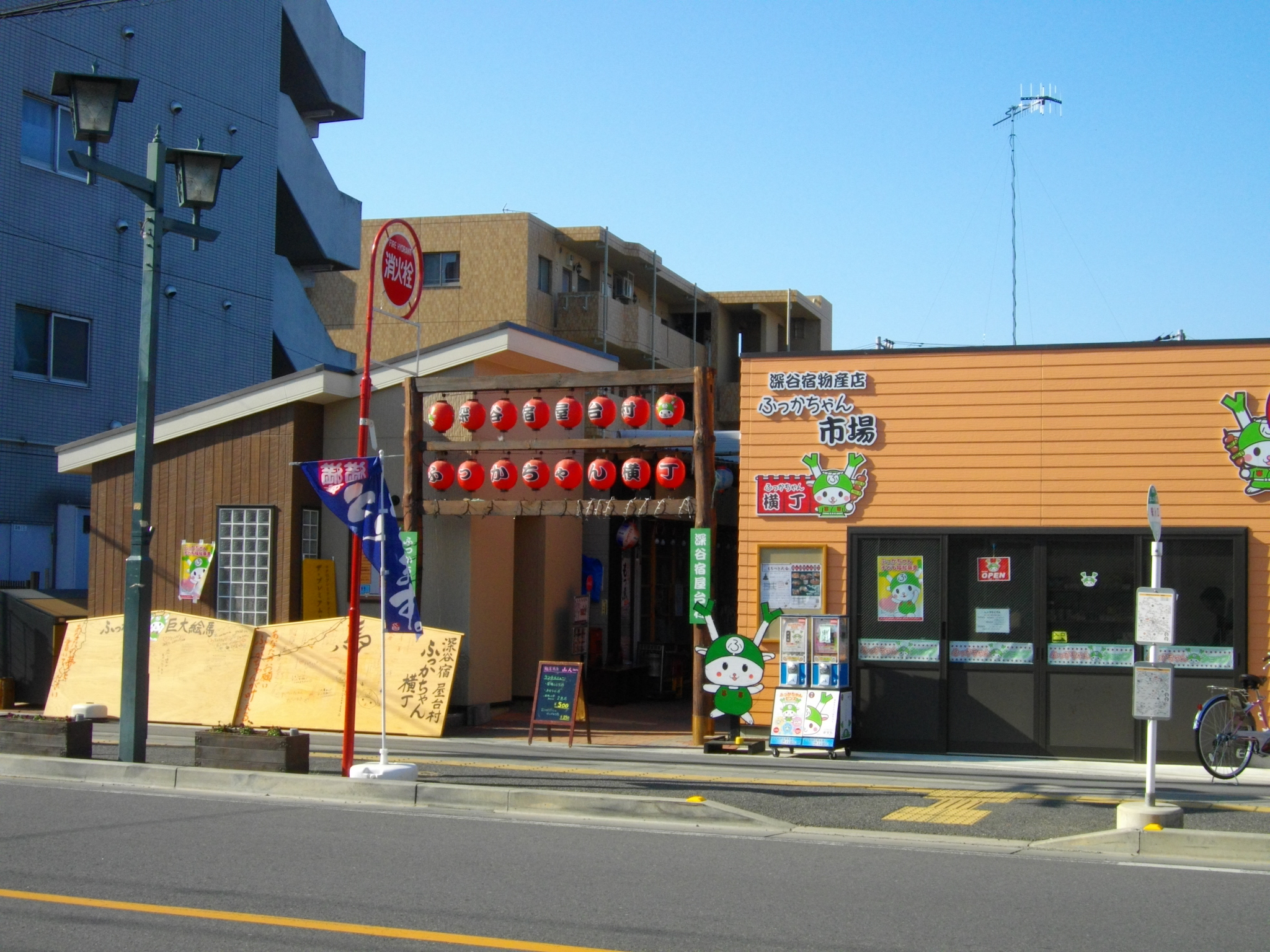 Fukkachan Yokocho